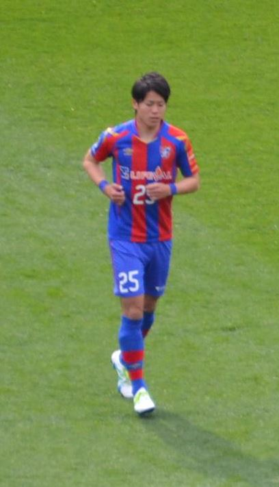 Ryoya Ogawa before the Tamagawa Clasico - the match between FC Tokyo and Kawasaki Frontale - played at Ajinomoto Stadium 16th April 2016.